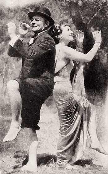 Charles Ruggles e Mary Boland in "Wives Never Know"